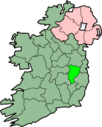 map of County Kildare, Ireland 08:04, 5 February 2004 Morwen 200x249 (30664 bytes) (map)